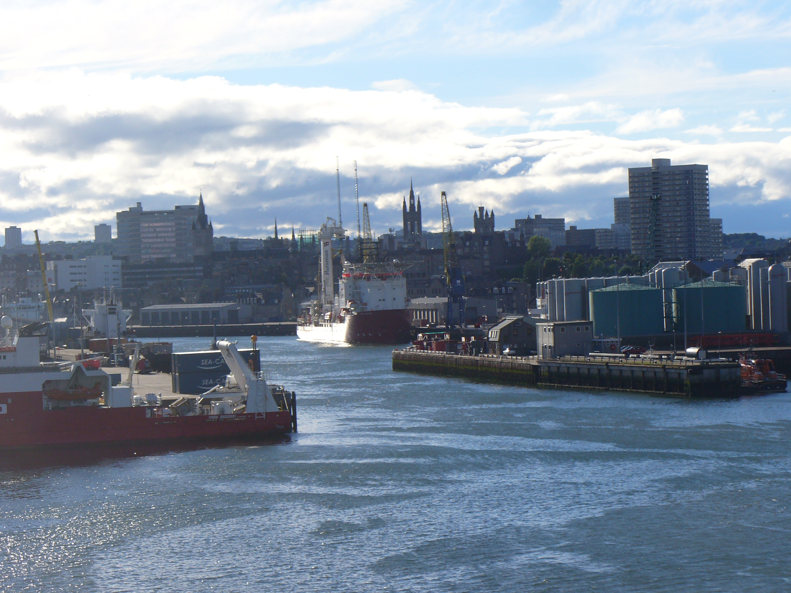 Quayside Aberdeen; Skyline of Aberdeen